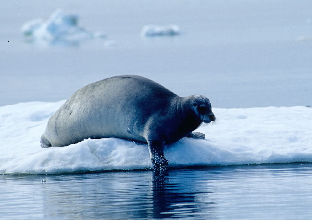 Bearded seal, Erignathus barbatus, on ice flow in Foxe Basin (near Igloolik, Nunavut, Canada)